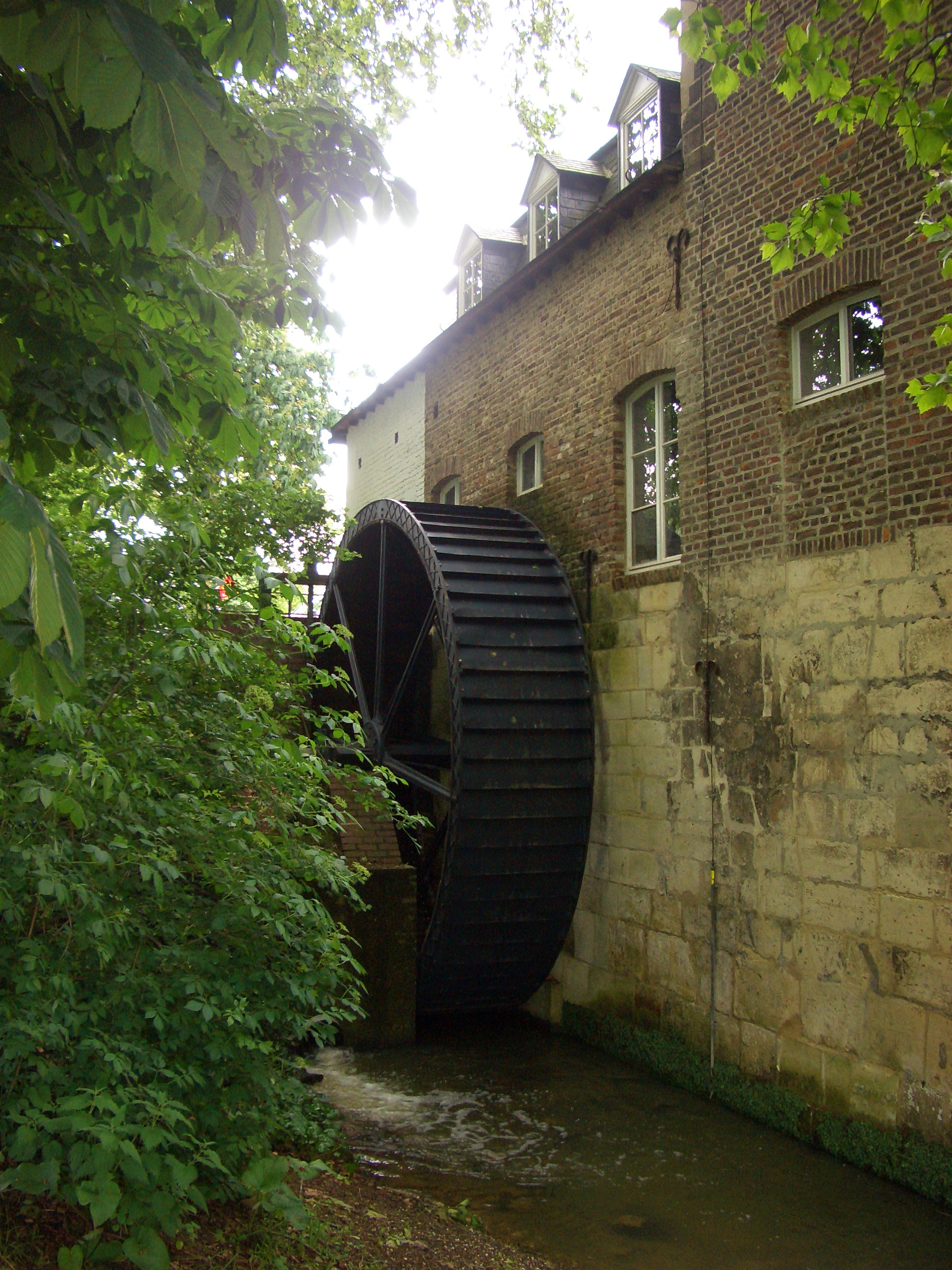 This picture of the Weltermolen in Welten was taken by me, Maarten van Wesel, in Heerlen on the 28th of May, 2006